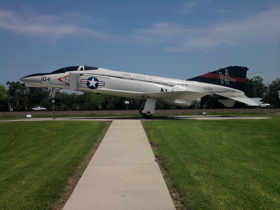 Phantom F4 Navy jet in front of Wedell-Williams museum